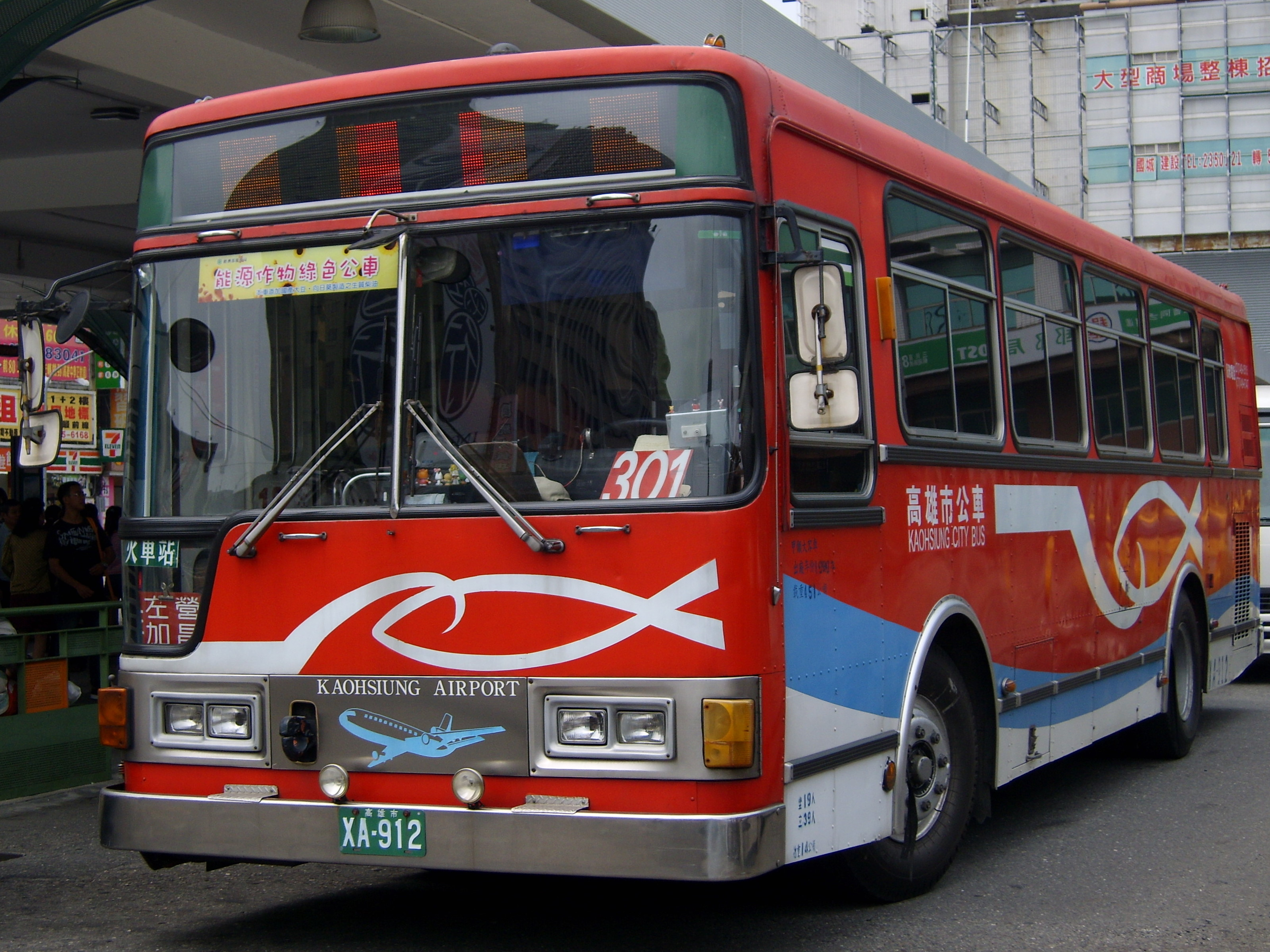 A Hino LRK2JMA bus is operated by Kaohsiung City Bus Department, and this bus painted mainly with red color.